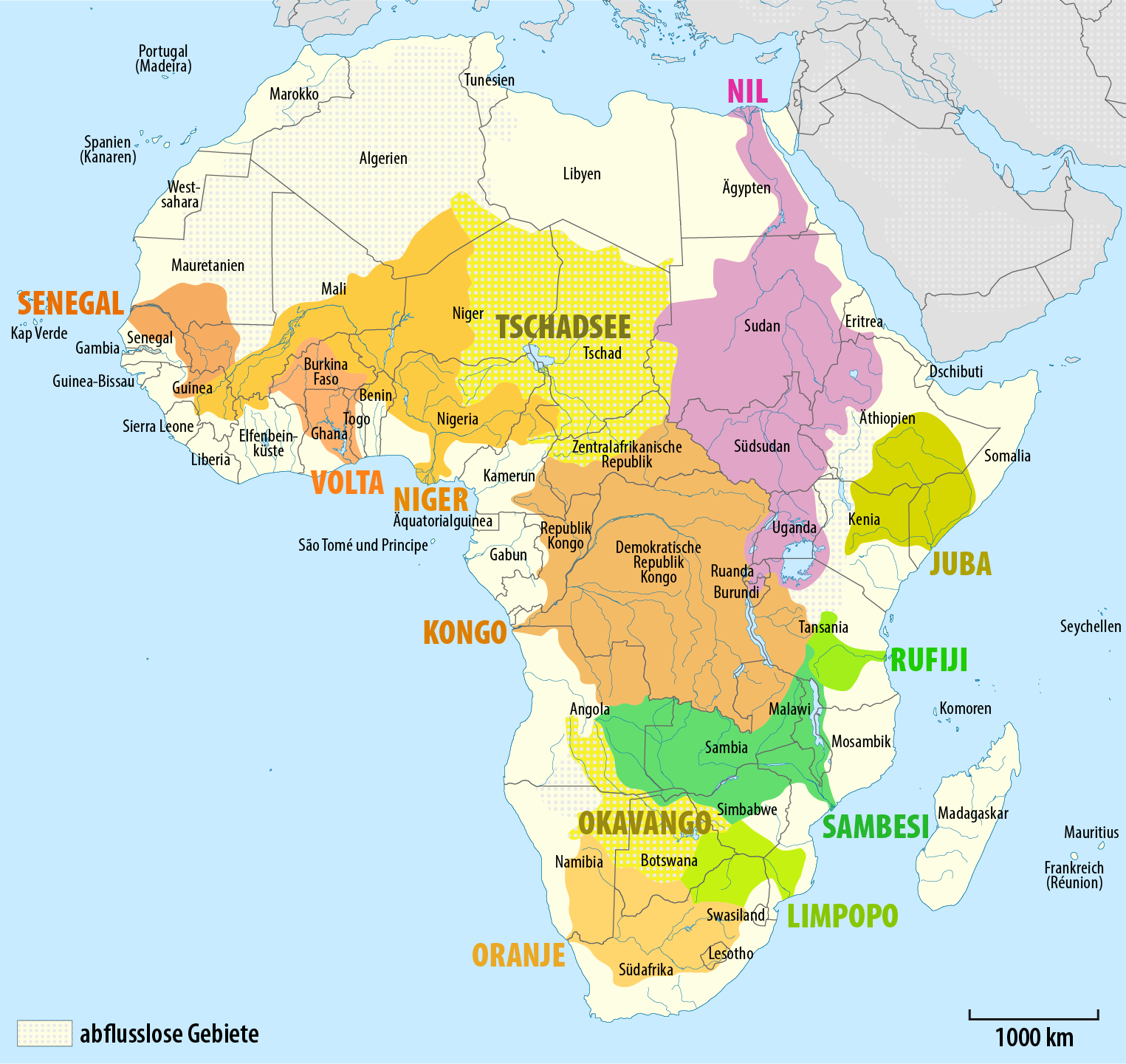 Map of the main river systems in Africa